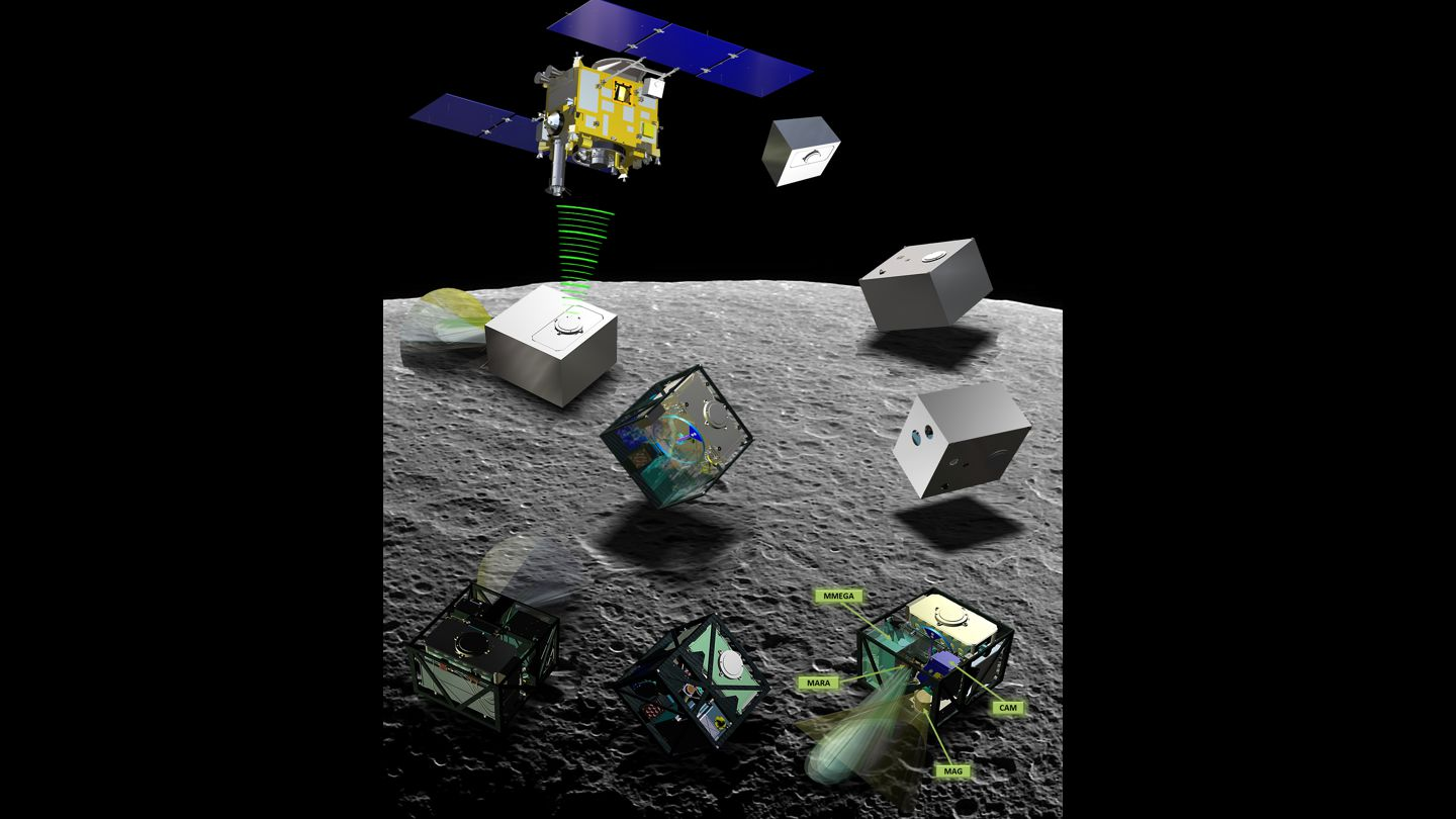 The asteroid lander MASCOT (Mobile Asteroid Surface Scout) has been on its way to the near-Earth Asteroid (162173) Ryugu (1999 JU3) since three December 2014. Currently on board the Japanese Hayabusa2 orbiter, it will reach its destination in 2018. Once there, the Haybusa2 probe will fly over the asteroid and collect material from the surface to be sent back to Earth. MASCOT, on the other hand, will free fall from a height of 100 metres, landing on the asteroid, which has a diameter of one kilometre. It will move around and, for the first time in the history of space travel, carry out measurements in several areas of the asteroid.